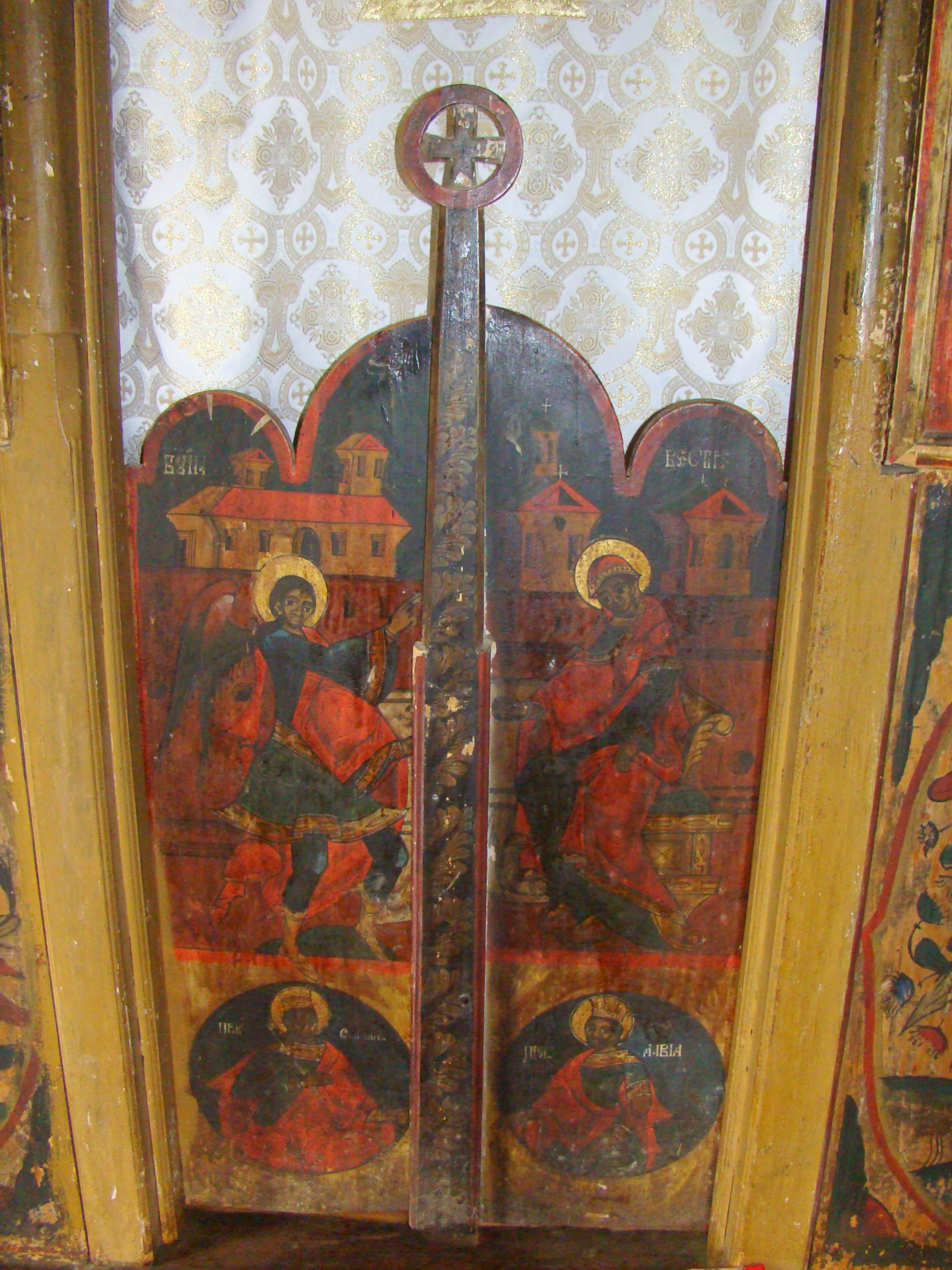 Wooden church in Horezu, Gorj county, Romania